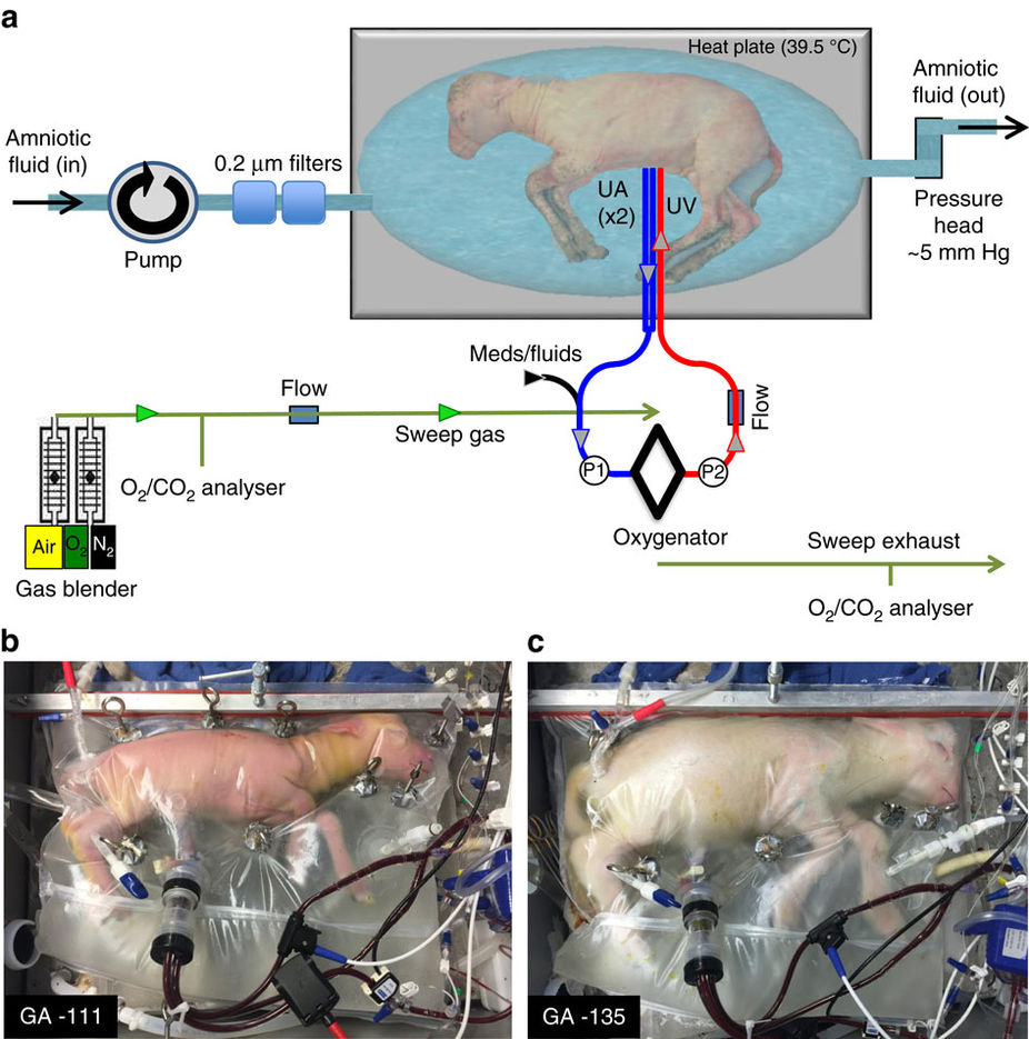 Figure 1 : UA/UV Biobag system design. From: An extra-uterine system to physiologically support the extreme premature lamb By: Partridge, Emily A.; Davey, Marcus G.; Hornick, Matthew A.; McGovern, Patrick E.; Mejaddam, Ali Y.; Vrecenak, Jesse D.; Mesas-Burgos, Carmen; Olive, Aliza; Caskey, Robert C.; Weiland, Theodore R.; Han, Jiancheng; Schupper, Alexander J.; Connelly, James T.; Dysart, Kevin C.; Rychik, Jack; Hedrick, Holly L.; Peranteau, William H.; Flake, Alan W. (25 April 2017). "An extra-uterine system to physiologically support the extreme premature lamb". 8. The Author(s): 15112. Retrieved 2018-01-18. "This work is licensed under a Creative Commons Attribution 4.0 International License."